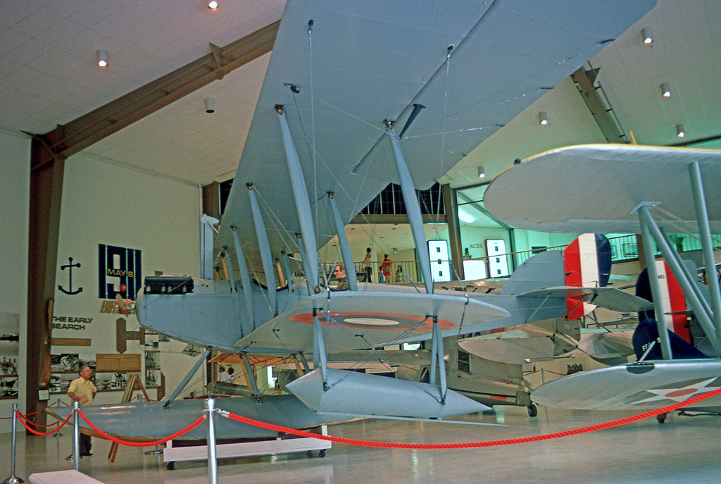 Curtiss N-9H of the United States Navy exhibited at the Pensacola Museum in 1975